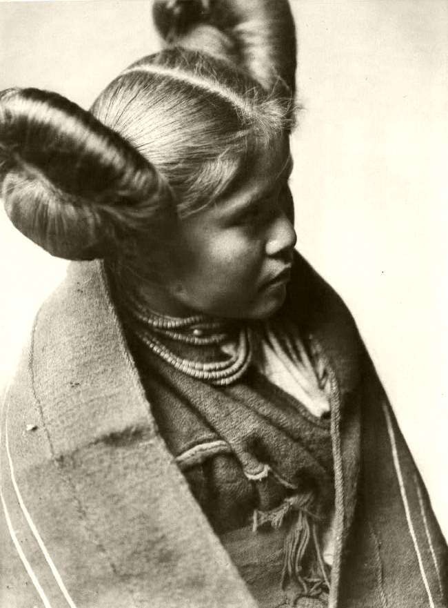 Chaiwa, a Tewa Indian girl with a butterfly whorl hairstyle. Photographed by Edward S. Curtis in 1922 Diné bizaad: Anaashashi asdzáni sidá Tewa (Tsiighá ashtʼéélyá "squash-blossom hair style") Chaiwa woolyé eelkidígíí, Edward S. Curtis ayiiłkid, 1922 yiihah yééhdą́ą́.